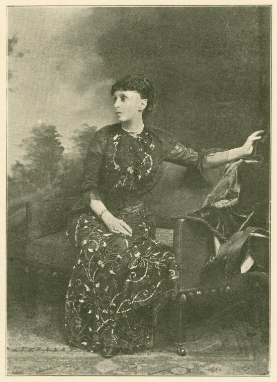 British suffragist and poet Alice Meynell